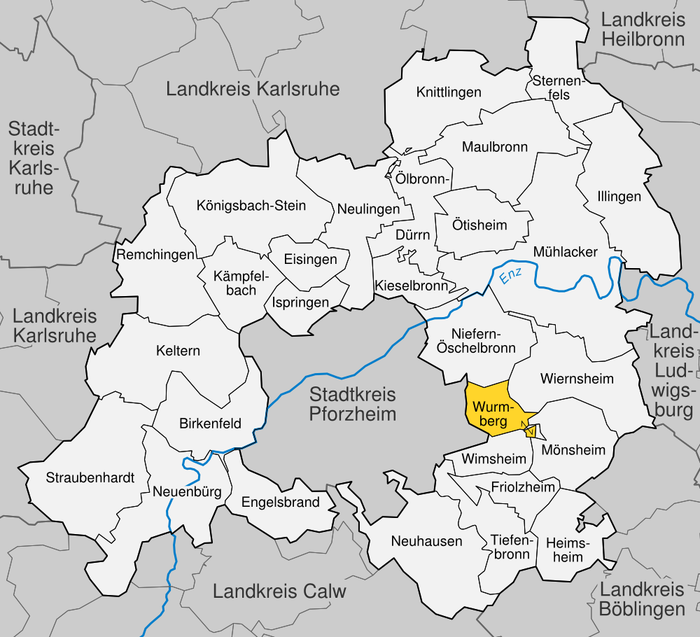 position of Wurmberg within distict of Enzkreis, Baden-Württemberg, Germany